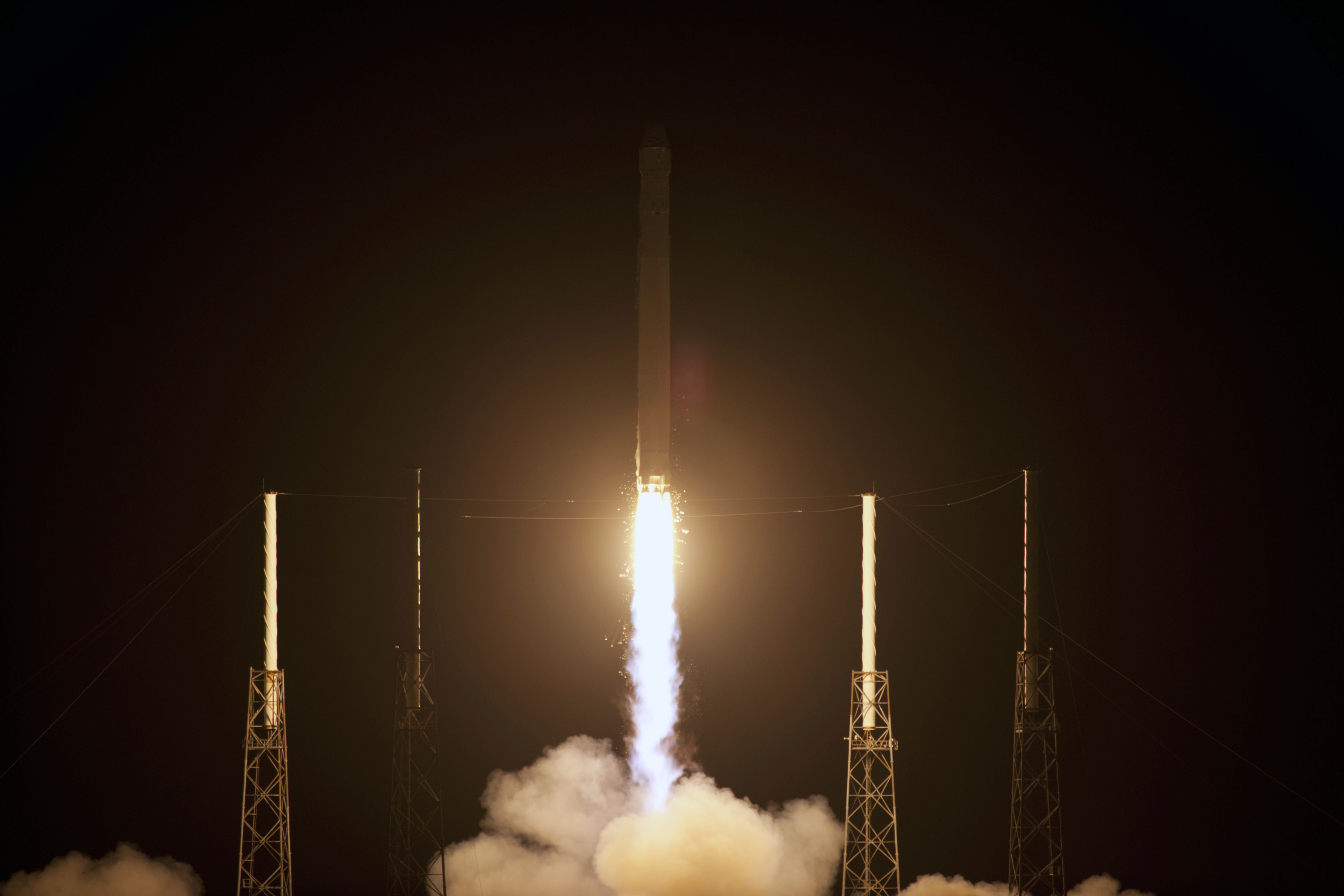 CAPE CANAVERAL, Fla. – On Cape Canaveral Air Force Station in Florida, Space Launch Complex-40 is ablaze as the SpaceX Falcon 9 rocket begins its ascent after liftoff at 3:44 a.m. EDT. The launch is the company's second demonstration test flight for NASA's Commercial Orbital Transportation Services, or COTS, Program. During the flight, the Dragon capsule will conduct a series of check-out procedures to test and prove its systems, including rendezvous and berthing with the International Space Station. If the capsule performs as planned, the cargo and experiments it is carrying will be transferred to the station. The cargo includes food, water and provisions for the station’s Expedition crews, such as clothing, batteries and computer equipment. Under COTS, NASA has partnered with two aerospace companies to deliver cargo to the station.